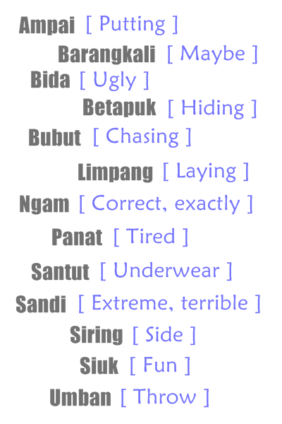 Some example of Sabahan language slang with English translation in bracket.